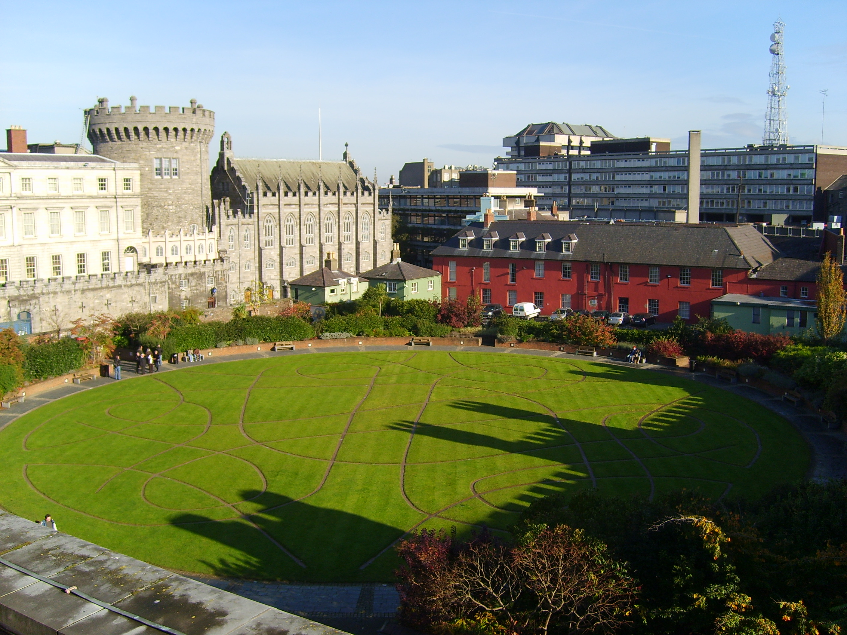 Digital photo of the Castle Gardens at the rear of Dublin Castle